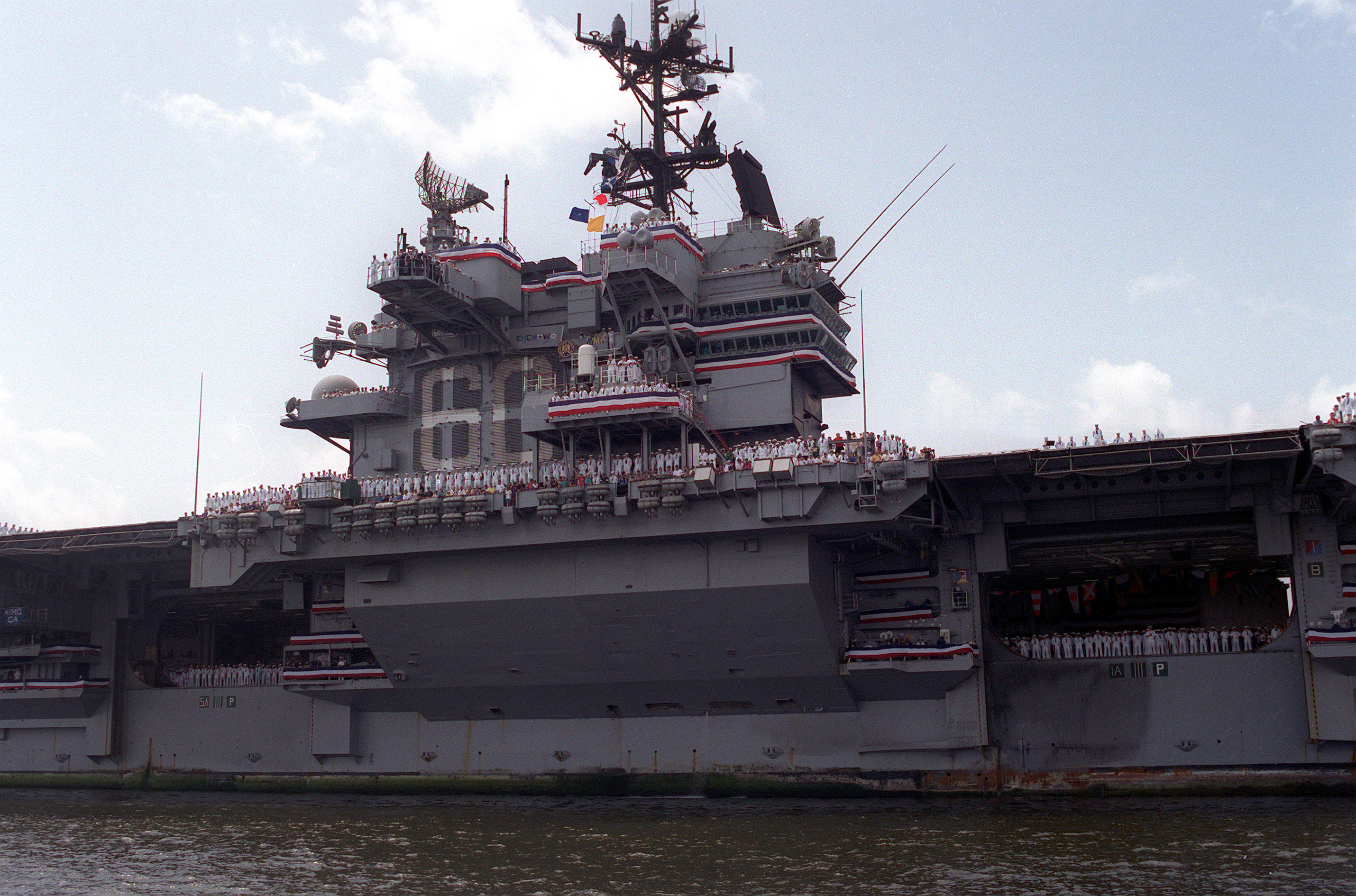 A starboard side view of the aircraft carrier USS SARATOGA (CV-60) as the ship enters the turning basin at Naval Station Mayport upon completion of her final cruise, a six month deployment to the Mediterranean. The SARATOGA is scheduled to be decommissioned on August 20, 1994 after more than 38 years of service. Location: MAYPORT, FLORIDA (FL) UNITED STATES OF AMERICA (USA)